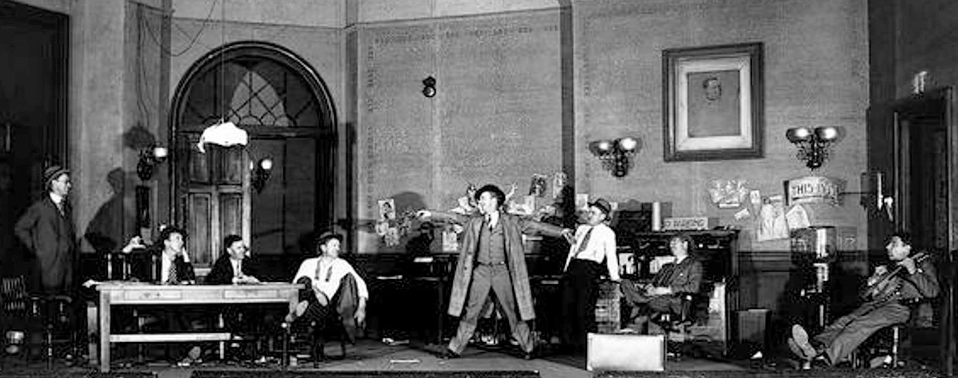 Promotional photograph for the 1928 Broadway production of The Front Page, with Lee Tracy as Hildy Johnson (arms outstretched, center)